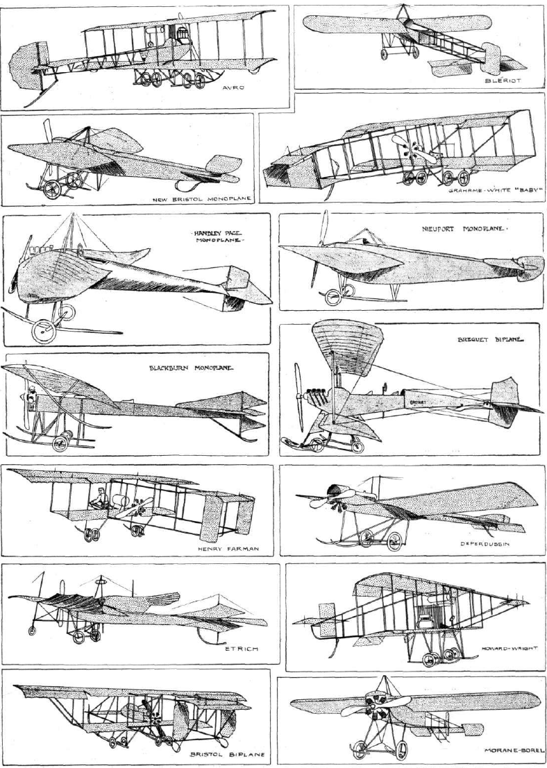 Sketches of competing aircraft in 1911 Circuit of Britain race